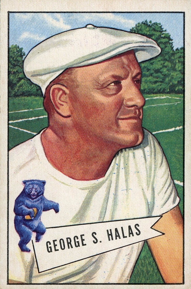 1952 Bowman Large George Halas #48